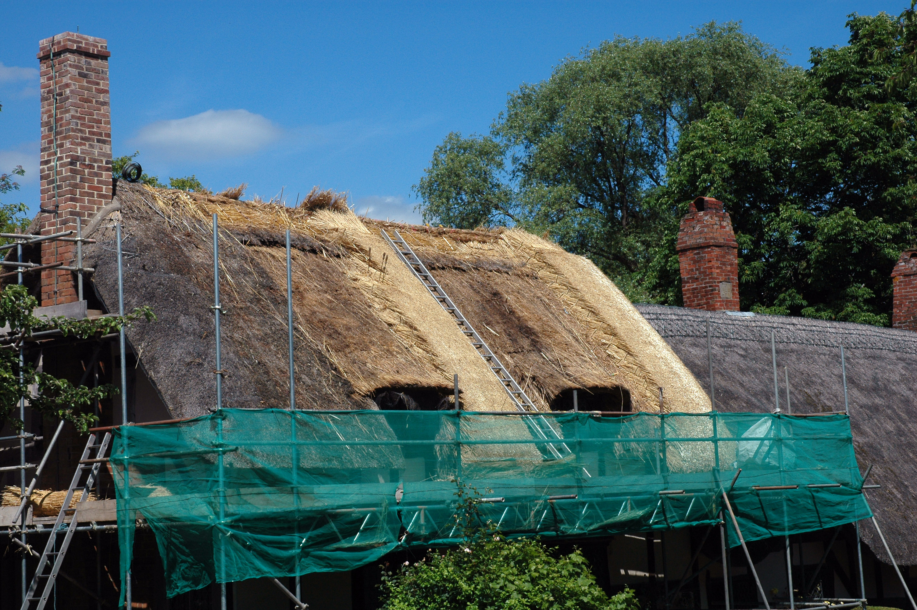 Thatched roof, Anne Hathaway's Cottage